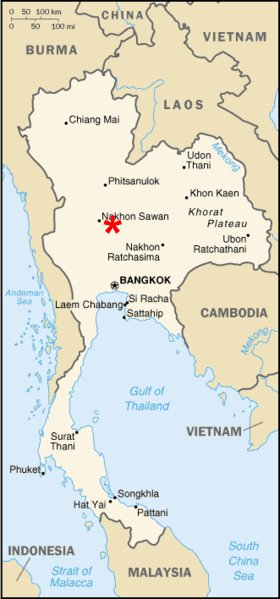 Location of Takhli RTAFB, Thailand. Created from map of Thailand generated from wikipedia commons map of southeast asia